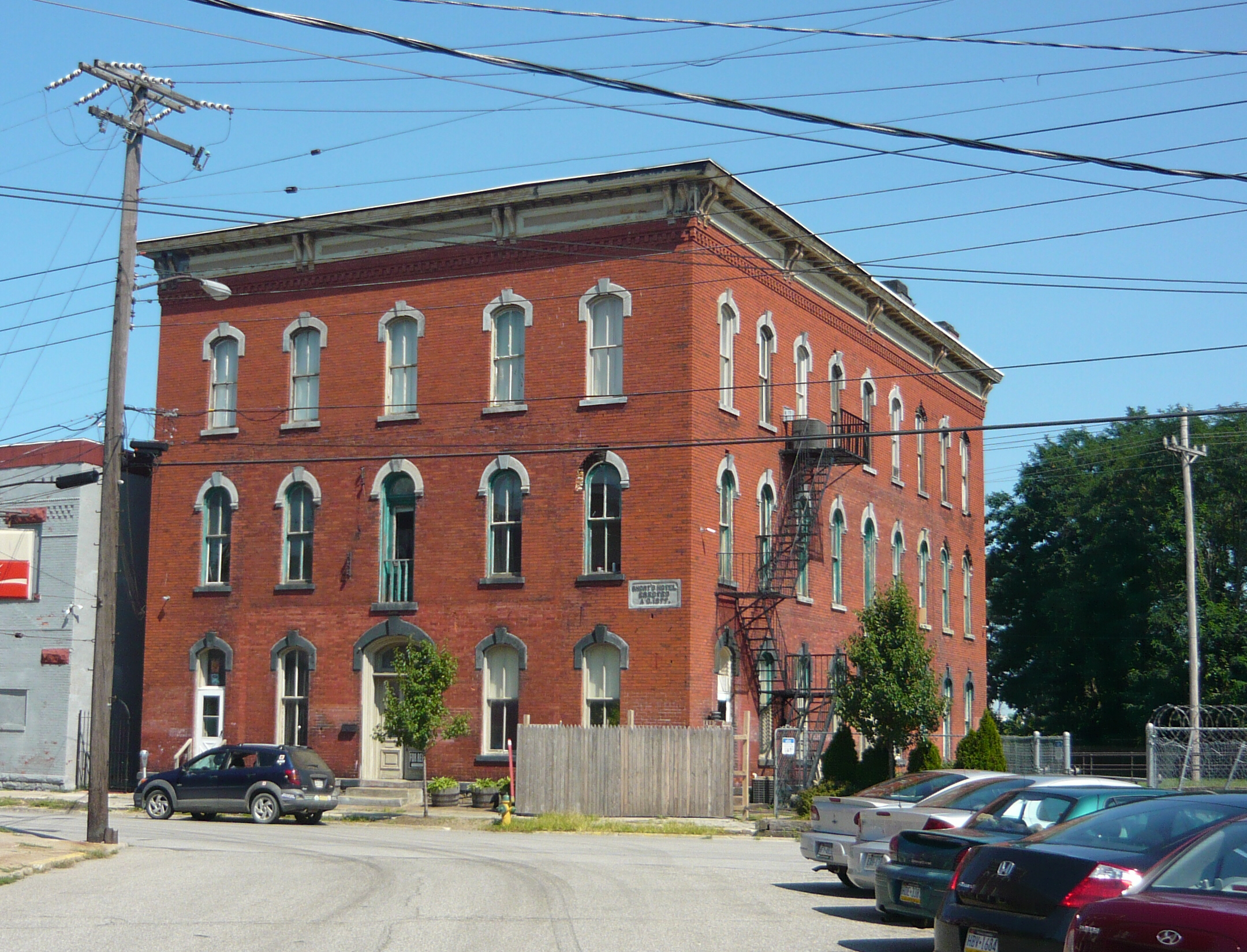 Short's Hotel (1899), 90 South Pearl Street at corner of Wall Street, (Borough of) North East, Erie County, Pennsylvania.